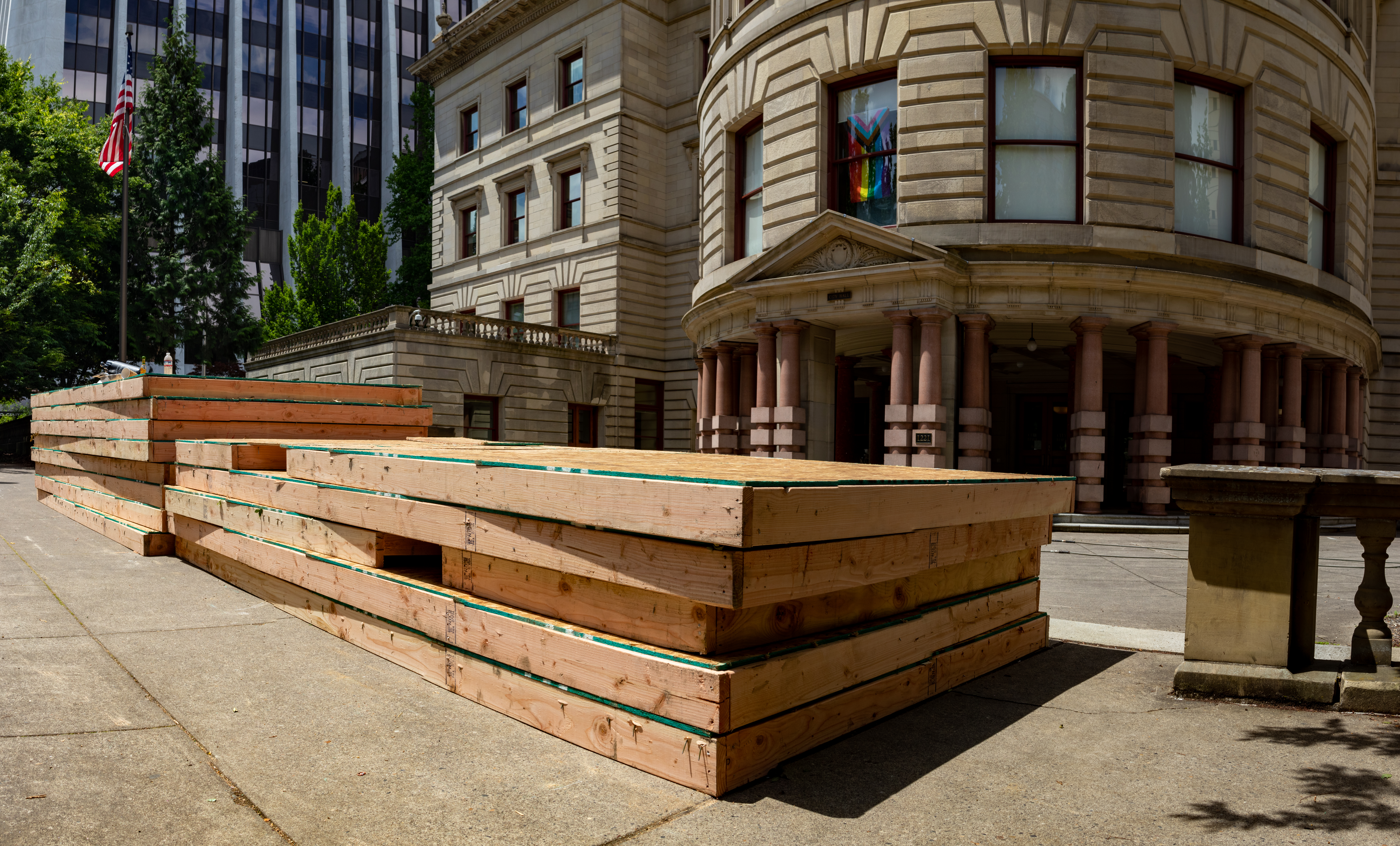 Removal of temporary (24-hour) wall surrounding Portland City Hall (Oregon) during George Floyd protests in Portland, Oregon.